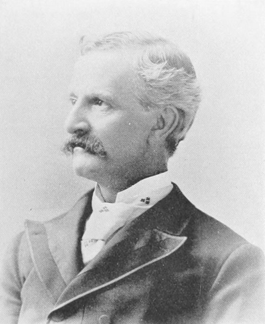 Photo of James E. Randlett, c.1893, prominent New Hampshire architect. From the caption: "James E. Randlett, architect, was born Sept. 5, 1846, in Quincy, Mass., his parents being James S. and Abbie O. (Chase) Randlett, who moved when he was nine years of age to a farm in beautiful Gilmanton. He enjoyed the regular school advantages of Quincy and Gilmanton till the War of Rebellion absorbed his interest, and August 15, 1862, he joined Company B, Twelfth New Hampshire volunteers, as a drummer boy, when only fifteen years of age; was mustered into United States service Aug 30, 1862, as a private. He served three years and participated in the battles of Fredericksburg, Va., Dec. 13, 1862, and Chancellorsville May 1 and 4, 1863. At the close of the war he he learned the carpenter's trade and engaged in business in Concord, N. H., where he has since resided for eighteen years. He was the first mail carrier appointed when Concord was awarded the free delivery system, and was keeper of the state house for four years. This position he resigned in 1890 and accepted a partnership with the well known architect, Mr. Edward Dow, under the firm name of Dow & Randlett. Mr. Randlett is ranked among the progressive men of the capital city, and his practical ability and executive force are very largely felt in the promotion of his firm's affairs. Plans for many public buildings, including the New Hampshire Agricultural college, have been furnished by his firm in the last two years, and as an architect his work has more than a state reputation. Mr. Randlett has been prominent in military and fraternal circles, a Republican, a Baptist, a man of earnest convictions, possesses hosts of friends, and has proved himself worthy of of important public and private trusts".